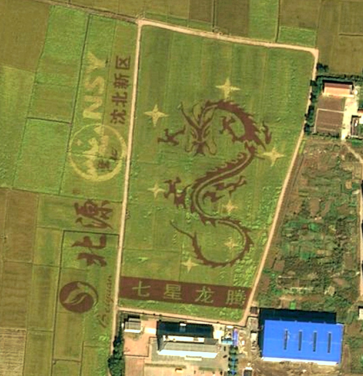 China, Shenyang: aerial view of a work of rice paddy art.